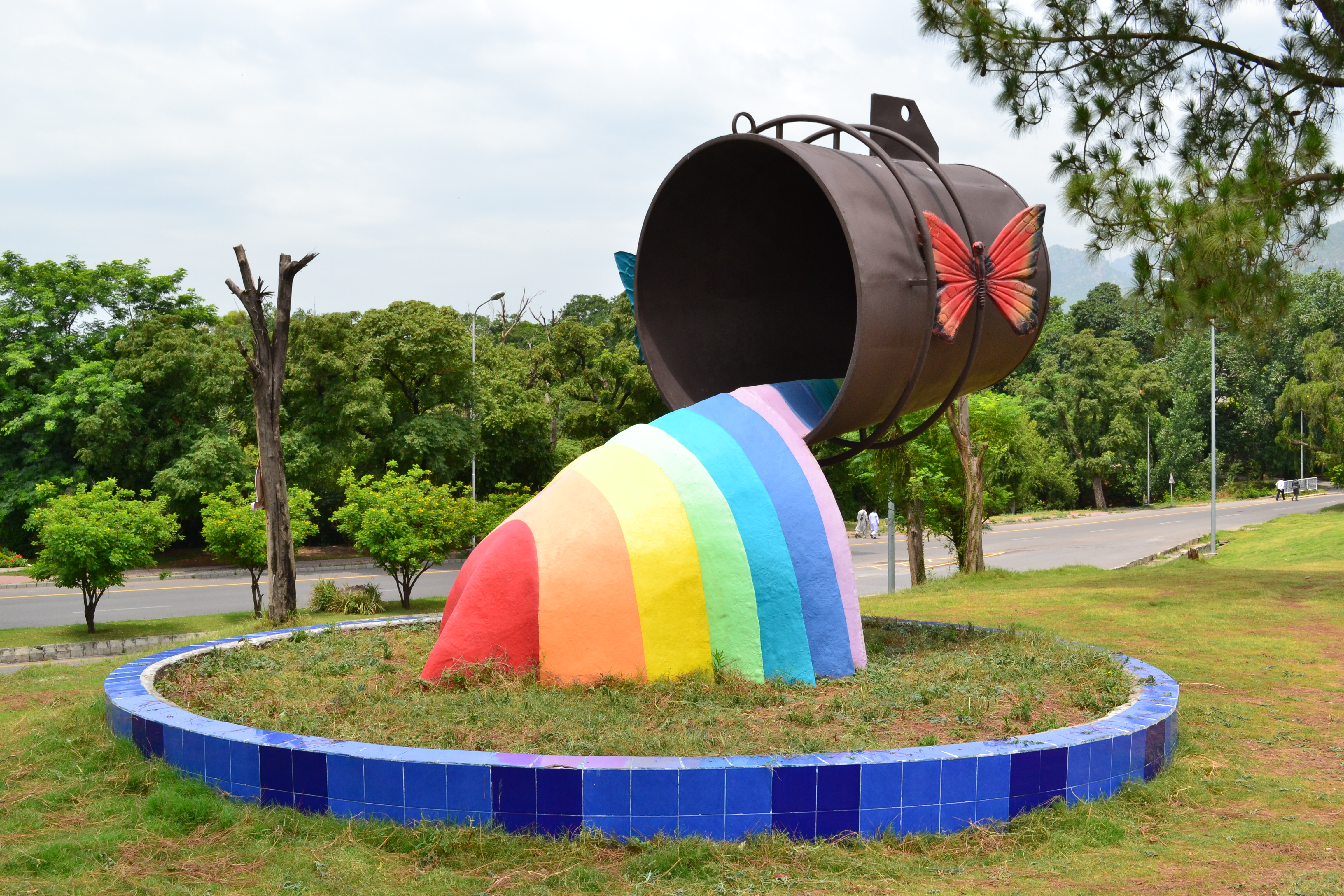 A colorful monument in Islamabad.